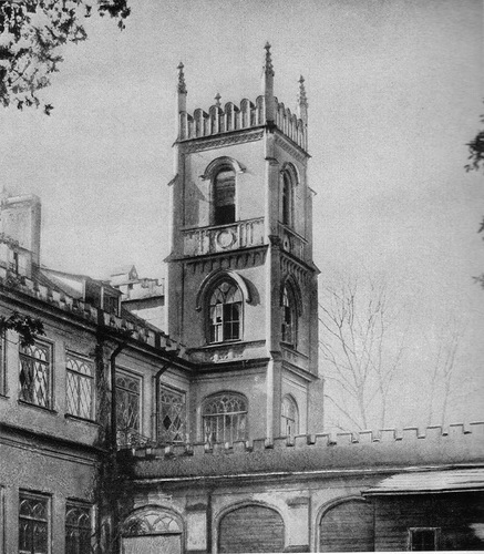 The Gothic villa of Prince Orlov in Strelna